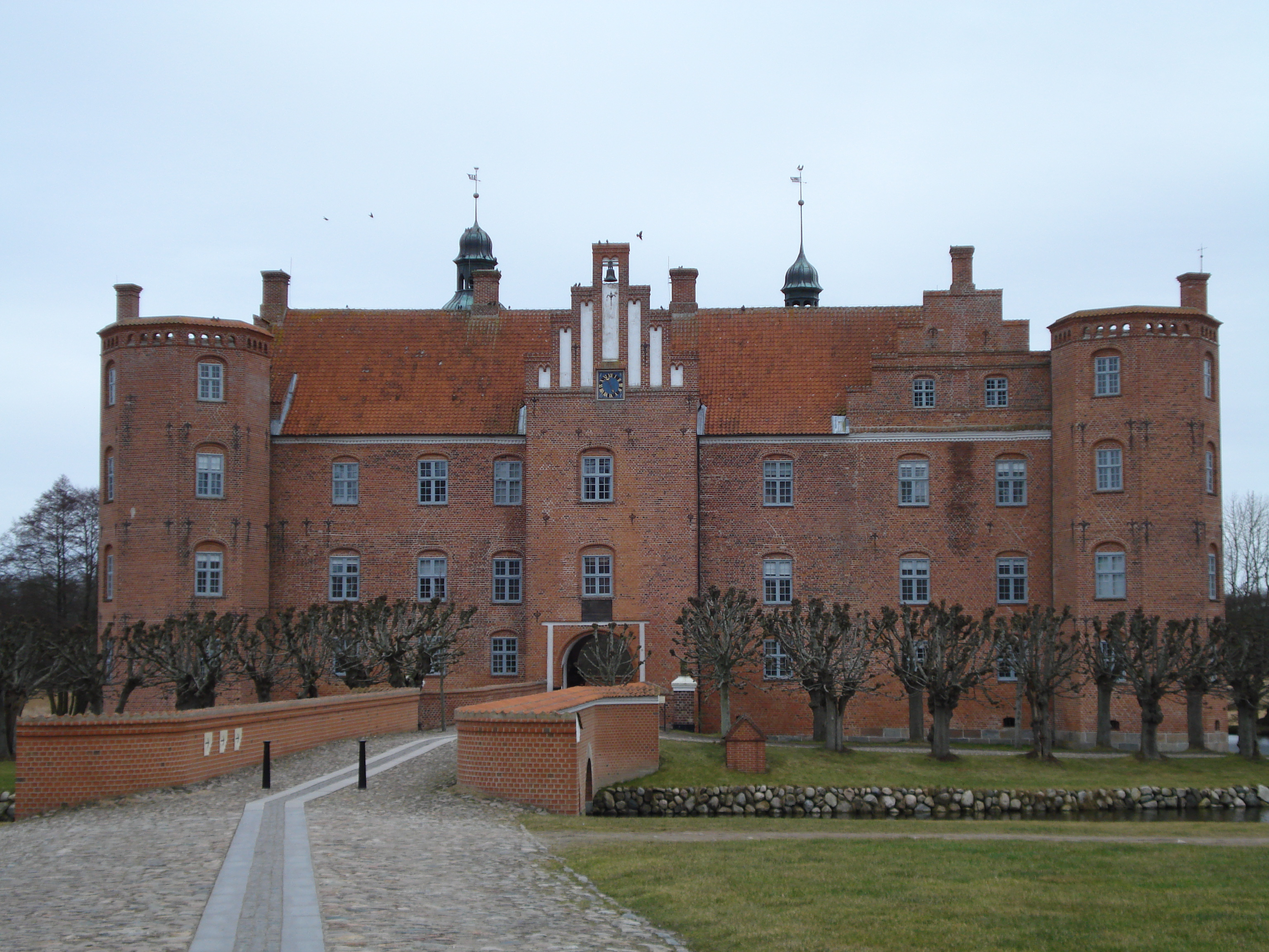 Gammel Estrup Manor, Jutland, Denmark. Seen from the west side.